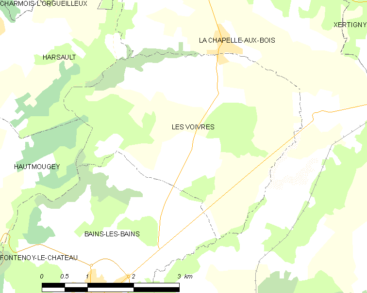 Map of French municipality Les Voivres